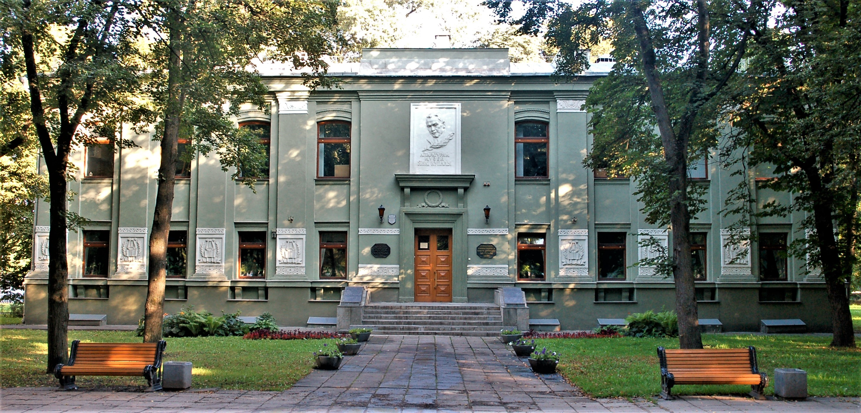 Yanka Kupala Museum, Minsk